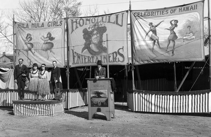 Honolulu Entertainers Show -- Image shows two young Hawaiian girls and their musicians performing at a circus show, 1920 photo advertising show.